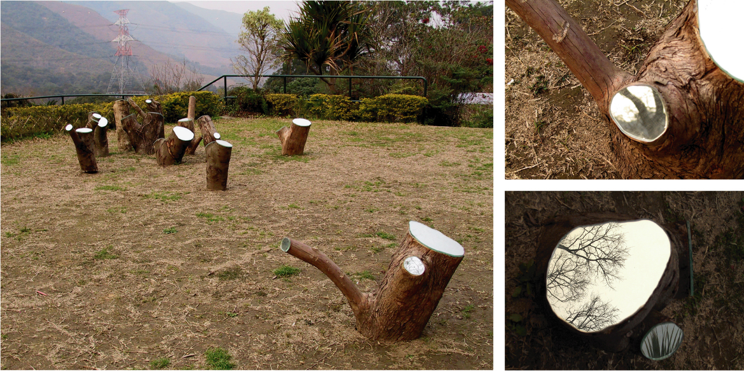 First outdoor onsite installation artwork